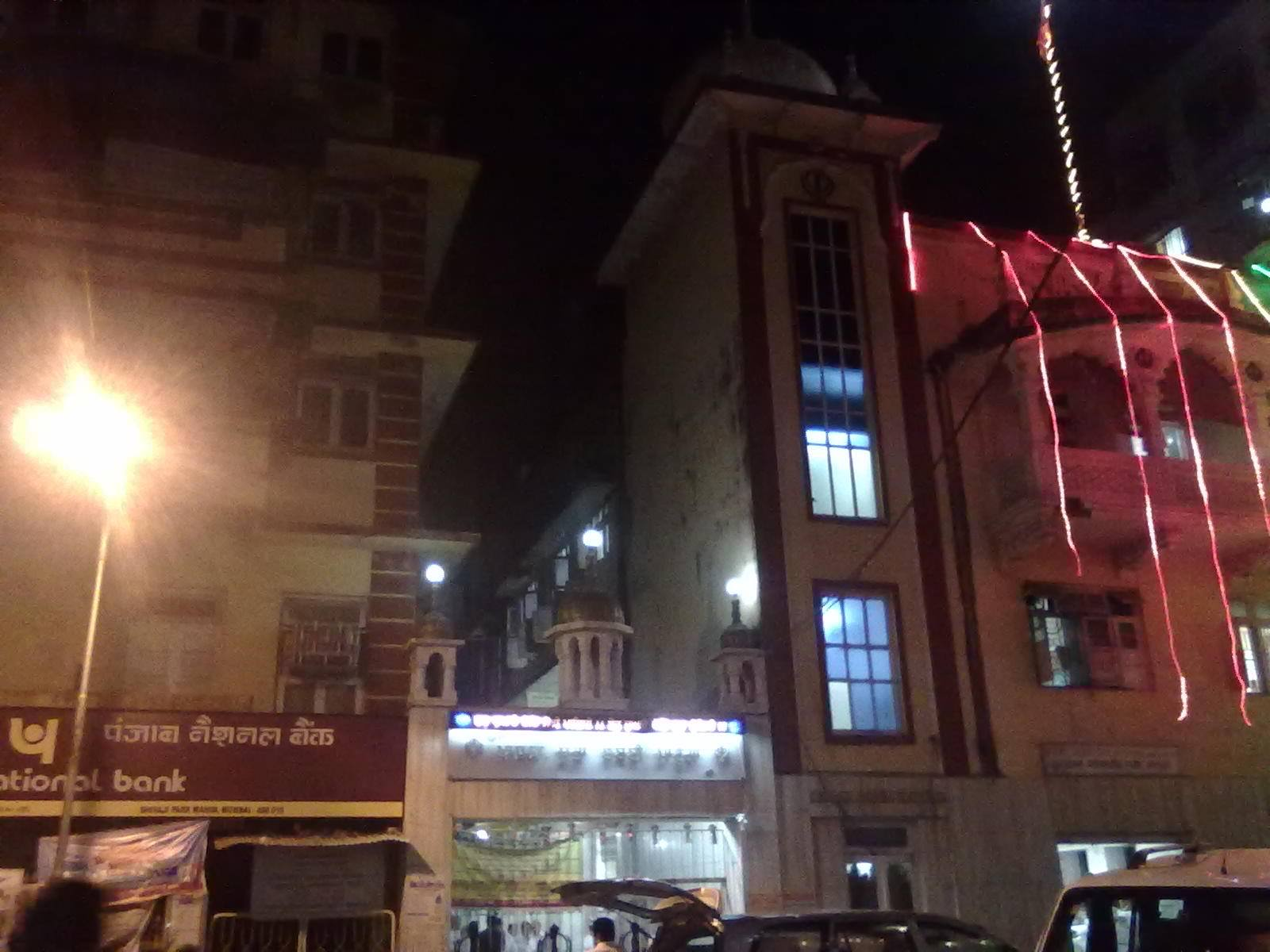 Guru Nanak High School, Mahim, Mumbai